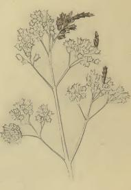 Stainton’s Natural History of the Tineina (1855–1873): Thiotricha subocellea a sprig of Origanum vulgare bearing larva cases